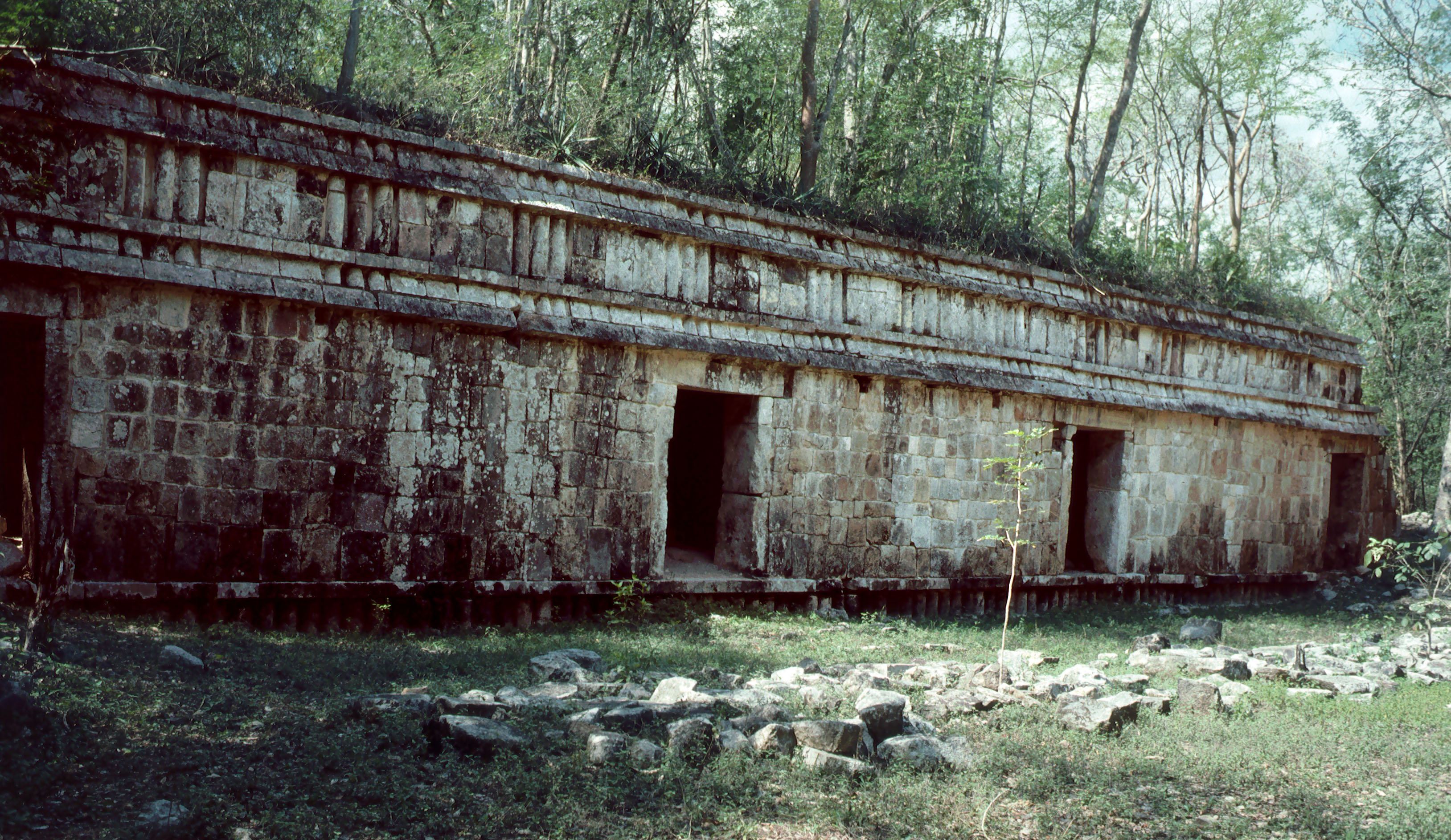 Kivik, Yucatan, Mexico: Group 1 building 3, north side.